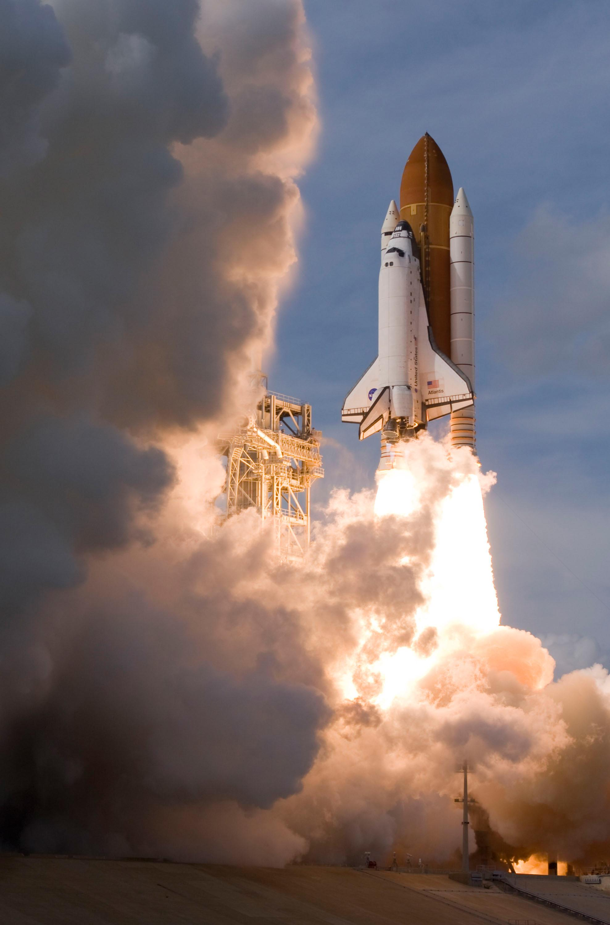 Billows of smoke and steam nearly obscure the twin columns of fire boosting space shuttle Atlantis into space for a rendezvous with the International Space Station on mission STS-122. Liftoff was on time at 2:45 p.m. EST.